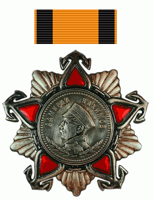 Order of Nachimov IInd Class with ribon